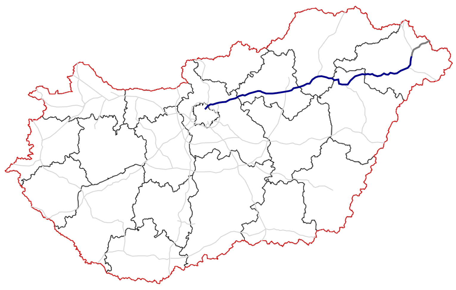 Traject the M3 Motorway, Hungary (Blue: in use, Light blue: under construction, Green: planned)